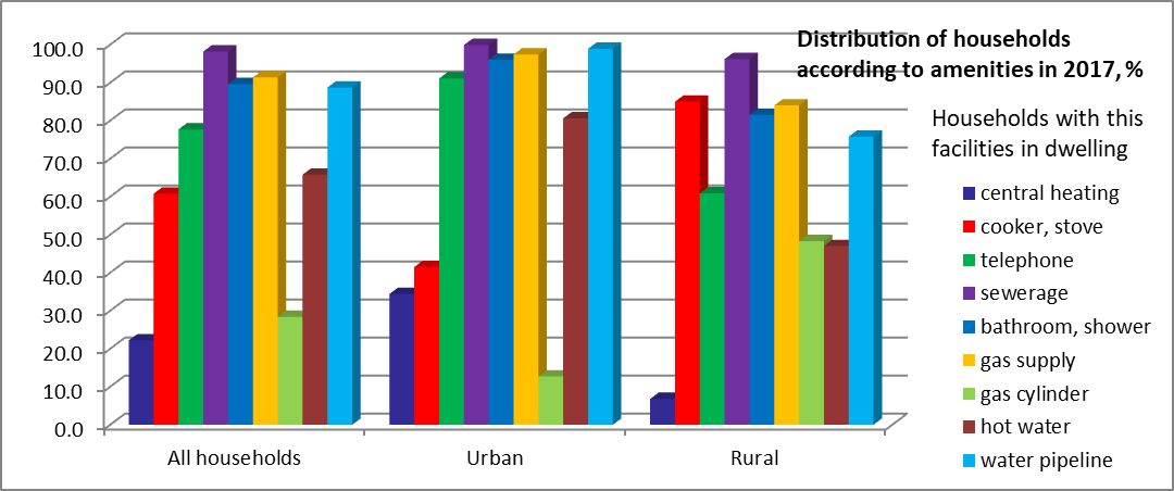 Distribution of households according to amenities in Azerbaijan in 2017, in per cent extracted - Budget of households - Distribution of households according to amenities - Distribution of households according to amenities in 2017, in per cent